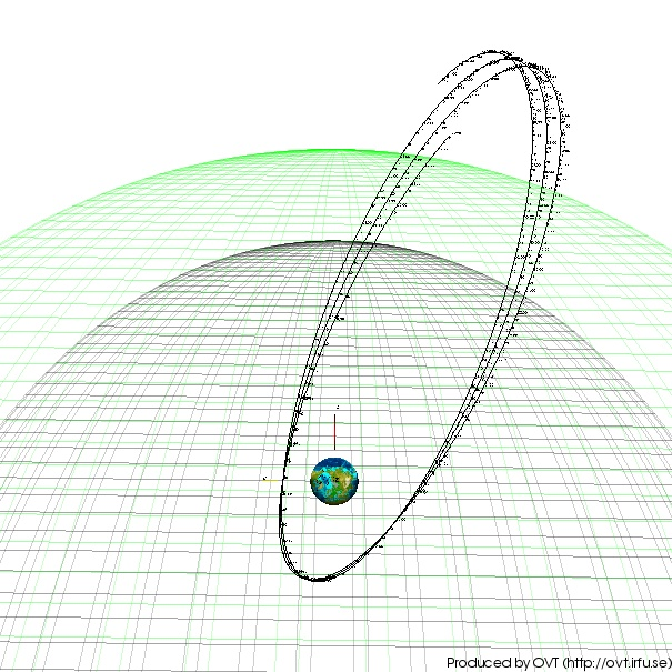 Orbit of ESA's four Cluster satellites during one week from 2004-03-21 T00:00:00Z, produced using the Orbit Visualization Tool. The wire grids represent the bow shock (outer, green) and the magnetopause (inner, blue) of the Earth's magnetosphere. The sun is in the upward direction.